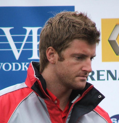 Guy Wilks at The Rally Show, Chatsworth 2007